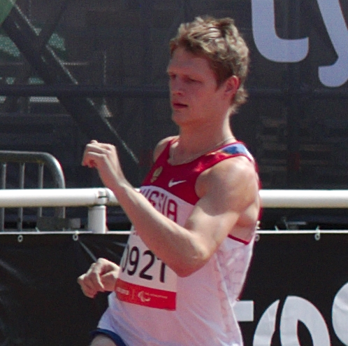 Cropped version of WikiCommons file showing Russian World Champions sprinter Evgenii Shvetcov in the final of the T36 400m